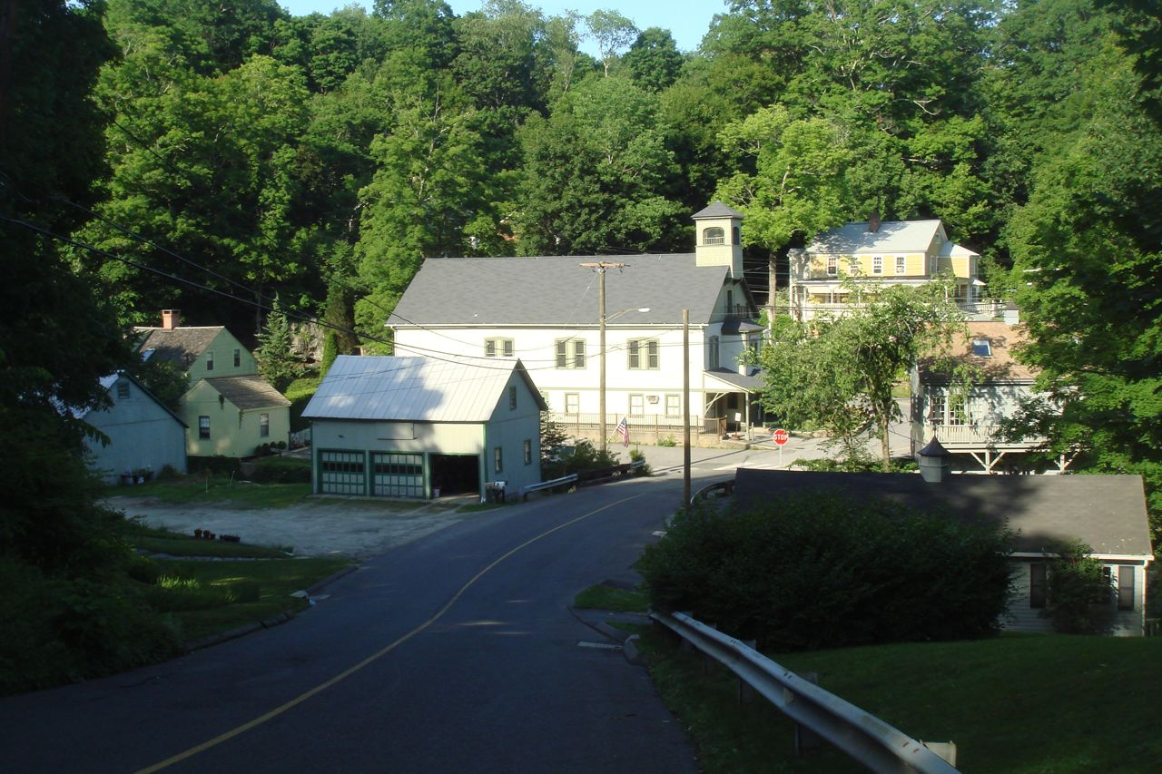 Village center of New Preston, Connecticut, looking east from New Preston HIll Road near its intersection with Route 45/East Shore Road